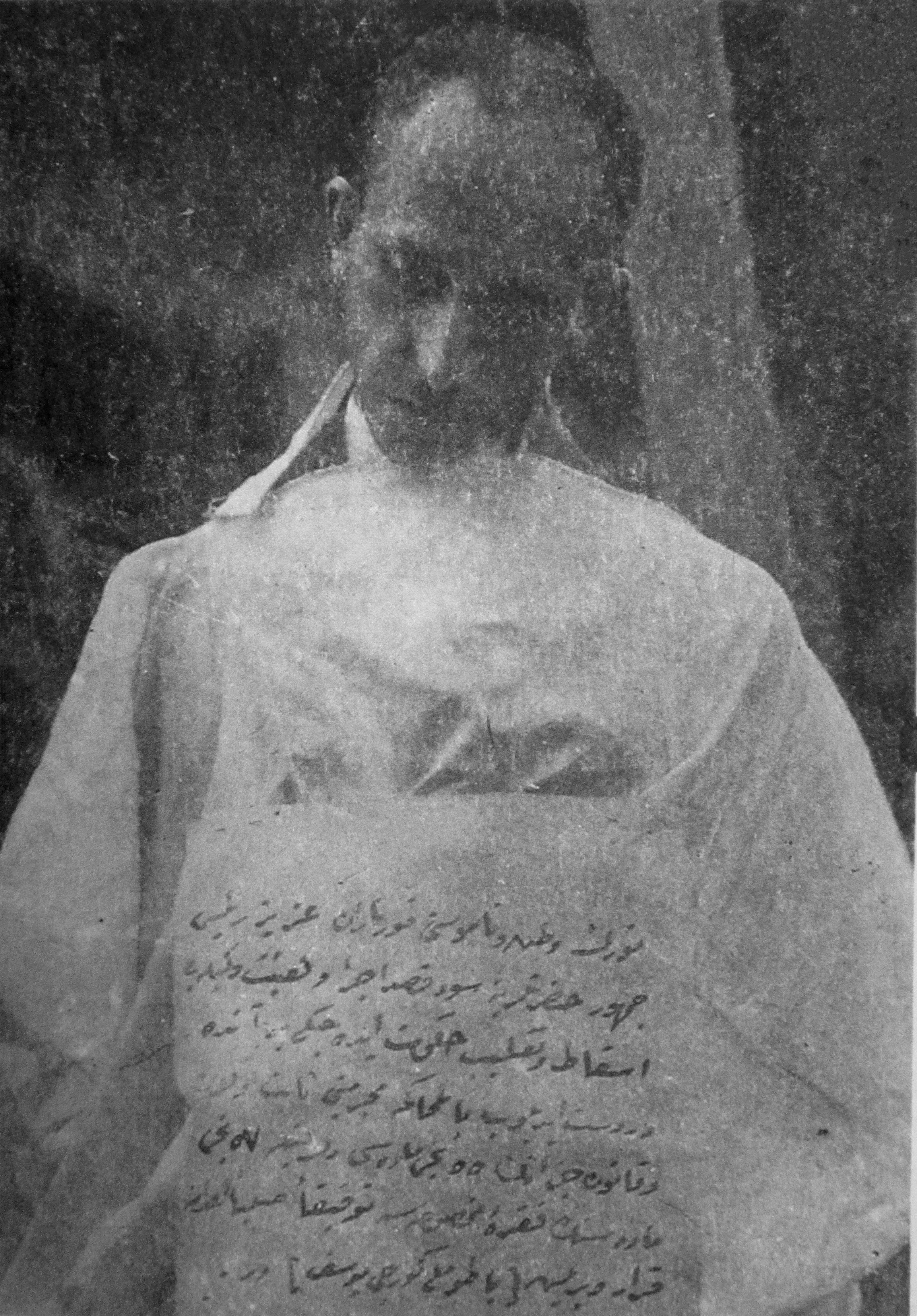 Gürcü Yusuf hung on the gallows treeTürkçe: Gürcü Yusuf idam sehpasında. Yazık değil mi bana!... Niçin böyle yapıyorsunuz?..., Kırk lira kadar param var. Size veriyorum. Batum'daki çocuklarıma gönderin. Okuyorlar, fakirler... İşlerine yarar.